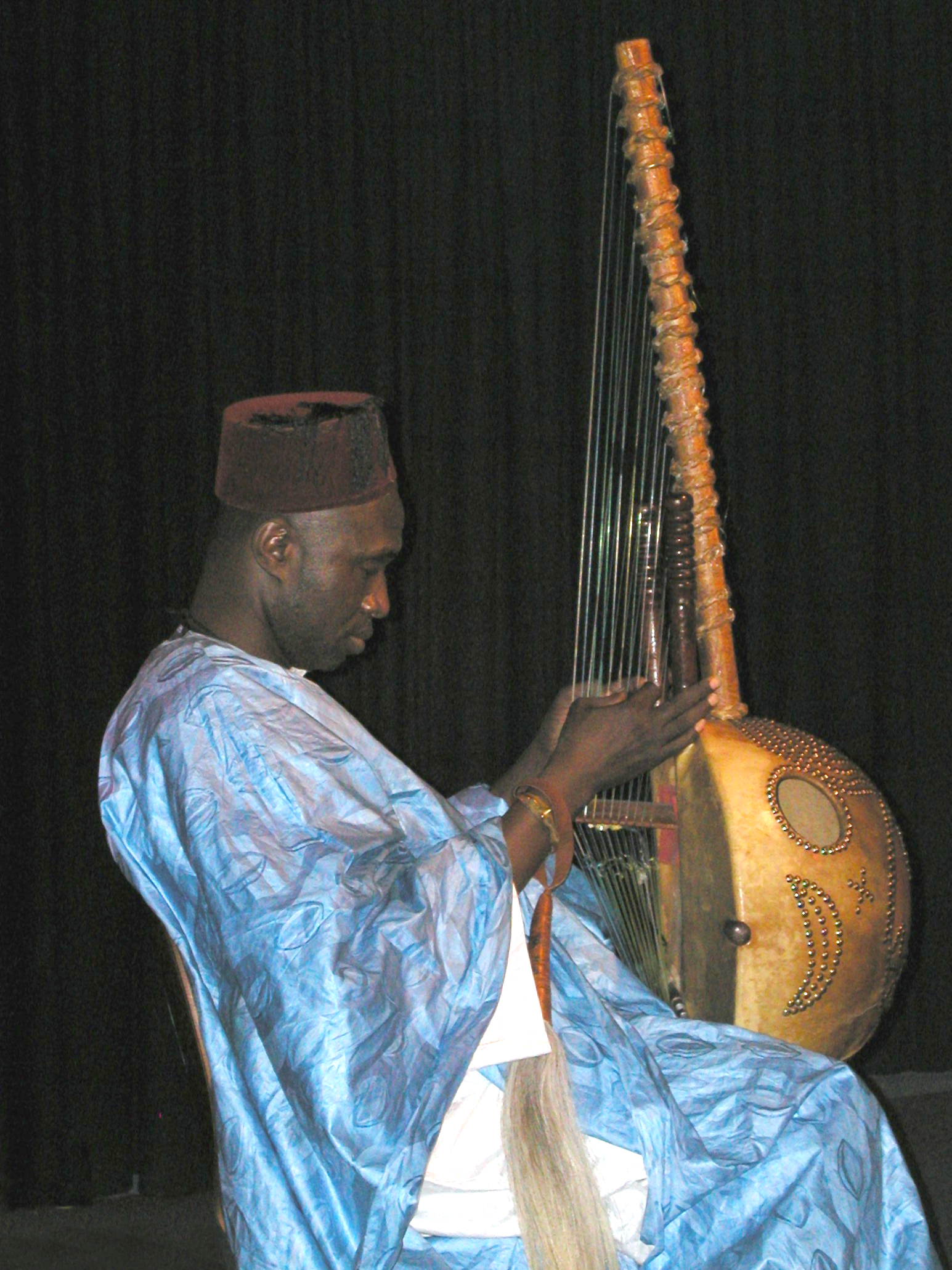 Kora player Papa Diabaté from Guinea in concert at Club W71 in Weikersheim